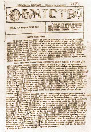 Bratstvo 27 August 1942